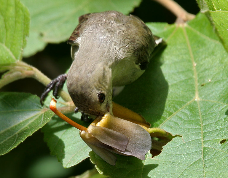 Pale-billed Flowerpecker Dicaeum erythrorhynchos (Hindi: Phoolchuki, Lepcha: Sungti-pro-pho, Guj: Pilichanchvali phul sunghani, Ta: For flowerpeckers: Poon-chittu, Poon-kothi, Te: Poopudupu jitta, Kan: Badanike hakki, Sinh: Pililer-geddi sutikka) on Helicteres isora - East Indian screw tree, nut-leaved screw tree • Bengali: antamora • Hindi: bhendu, damni, jonka phal, kapasi, मरोड़ फल maror phal • Kannada: yedamuri • Malayalam: isora-murri, valampiri • Marathi: अटी ati, धामणी dhamani, kapaisi, केवण kewan, मुरडशेंग muradsheng • Oriya: murmuria • Sanskrit: अवर्तनि avartani, मृग शृङ्ग mrigashringa • Sindhi: vurkatee • Tamil: வலம்புரி valampuri • Telugu: నులితడ nulitada • Urdu: marorphali - in Narsapur, Medak district, Andhra Pradesh, India.